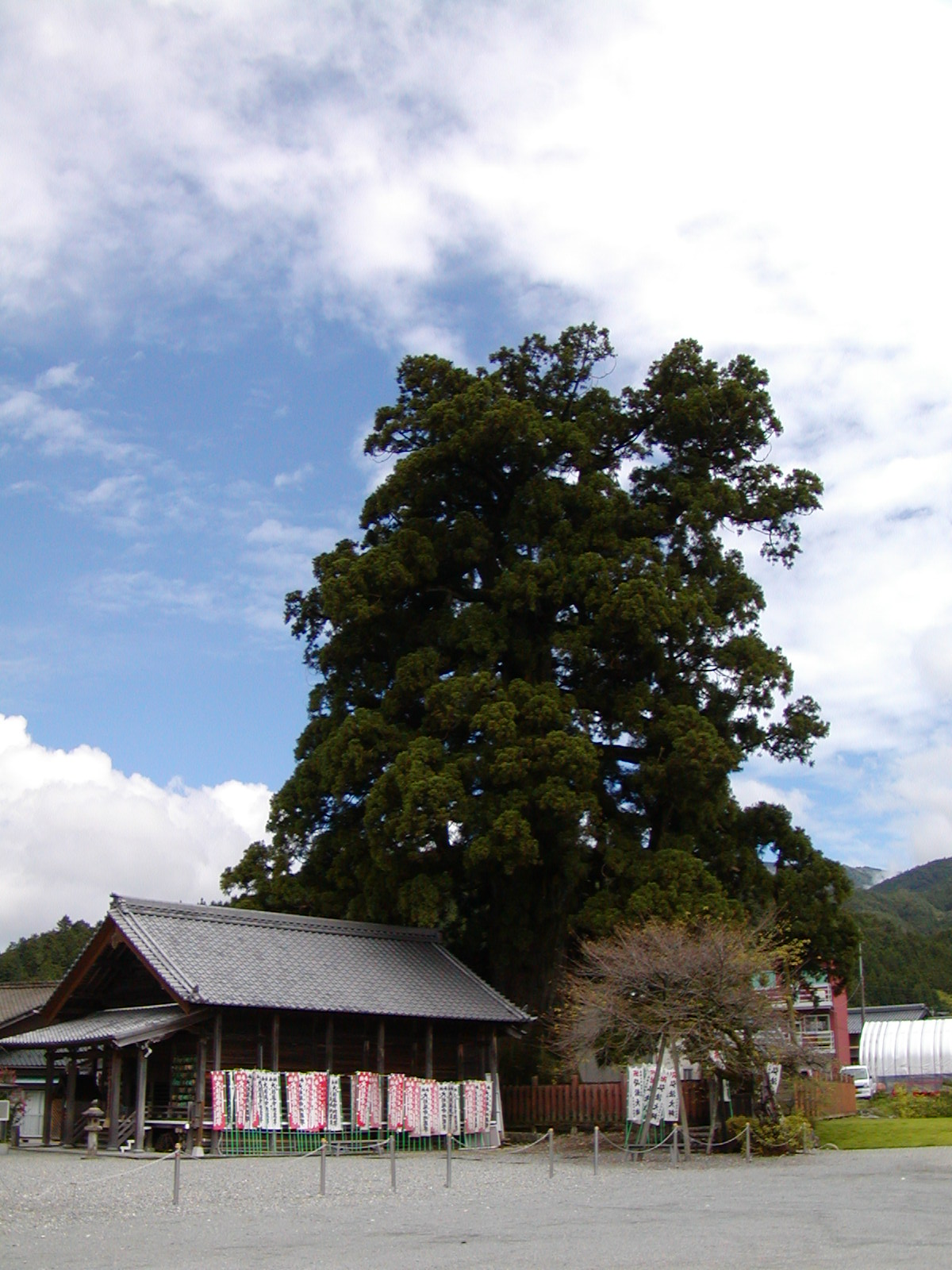 Kashimo Ōsugi (Enormous Cryptomeria japonica tree of Kashimo), Kashimo, Nakatsugawa city, Gifu pref., Japan.